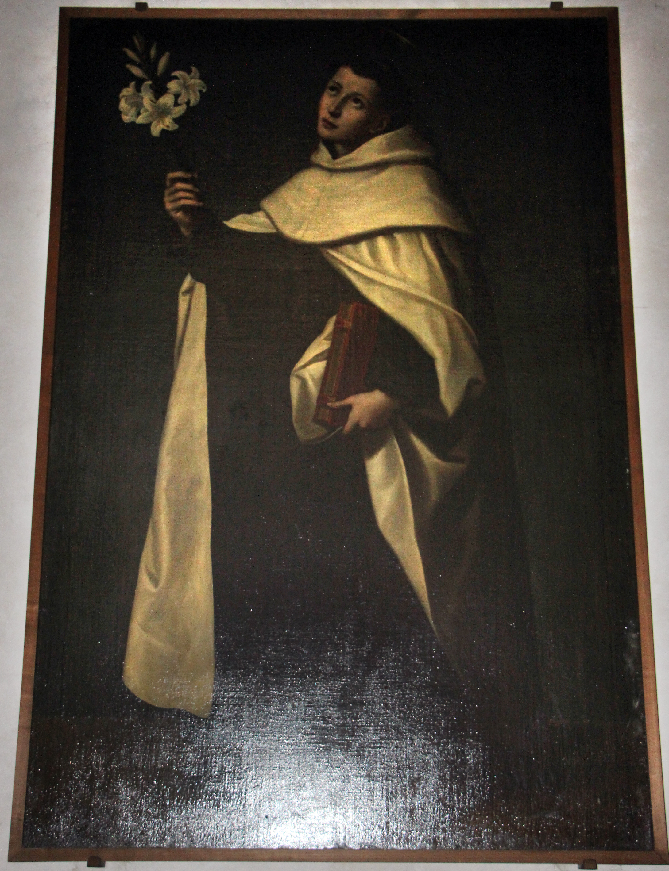 Santa Maria Maddalena de' Pazzi (Florence) - Interior